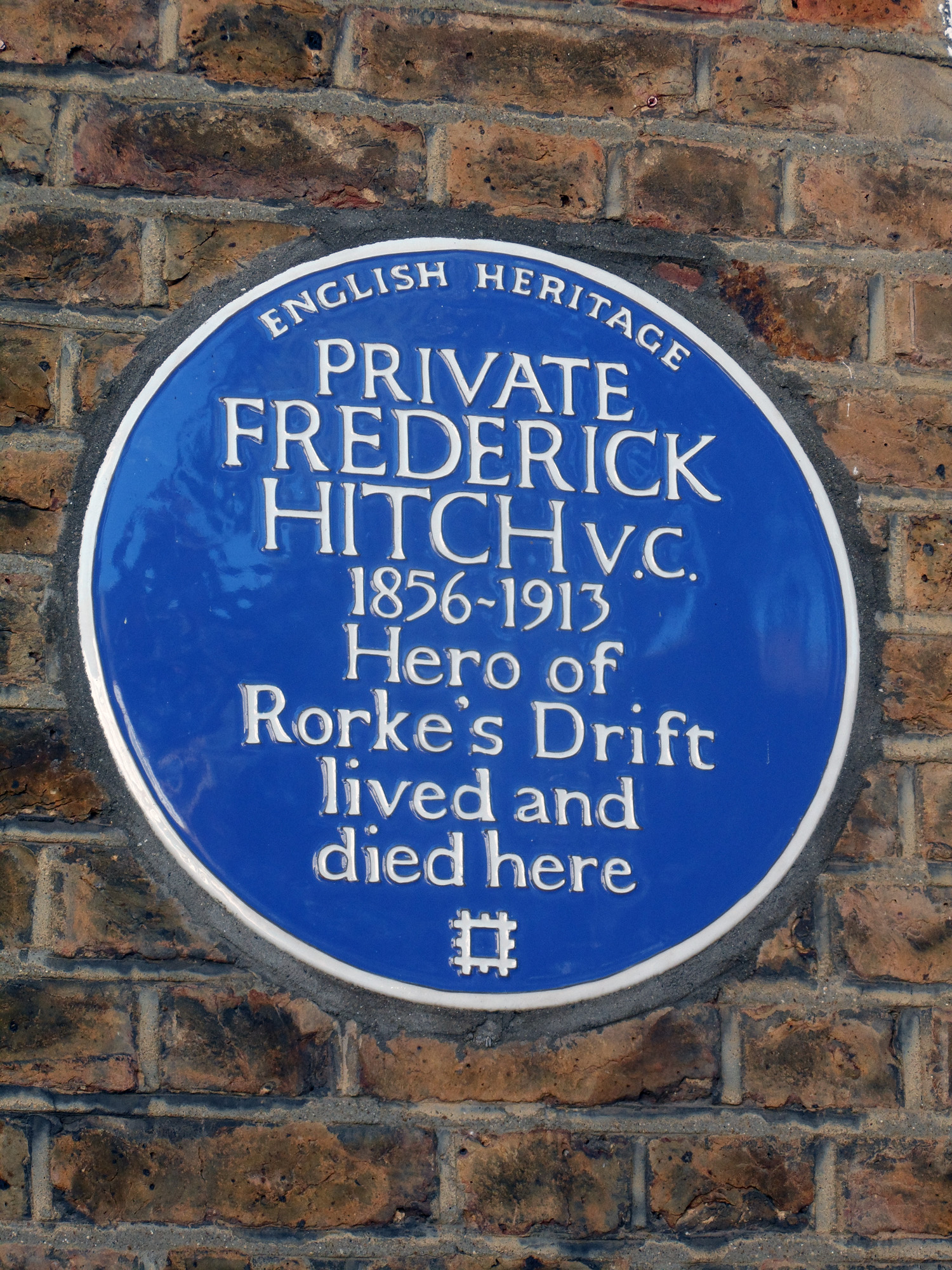 Blue plaque erected in 2004 by English Heritage at 62 Cranbrook Road, Turnham Green, London W4 2LJ, London Borough of Hounslow